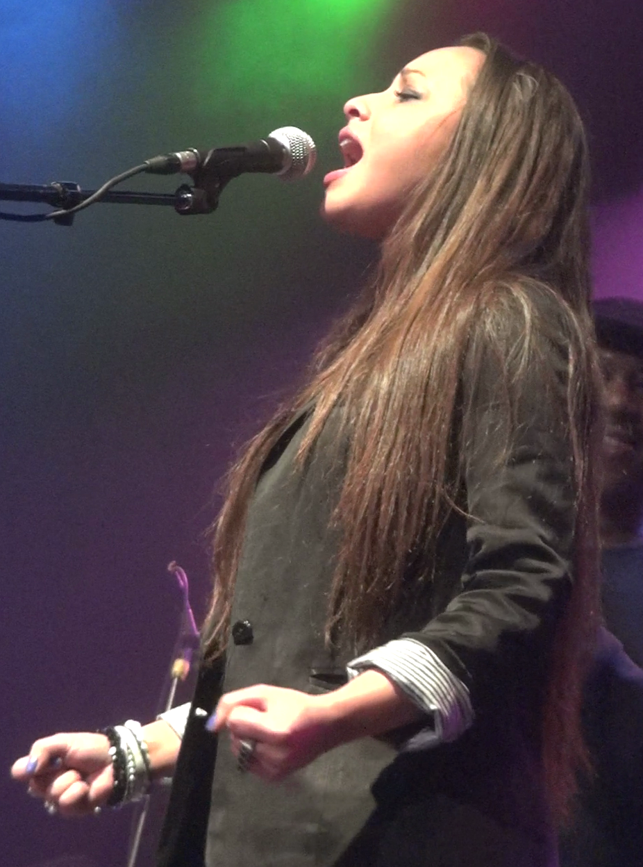 Jasmine Spaughton-Jones singing at the Million Man Mosh